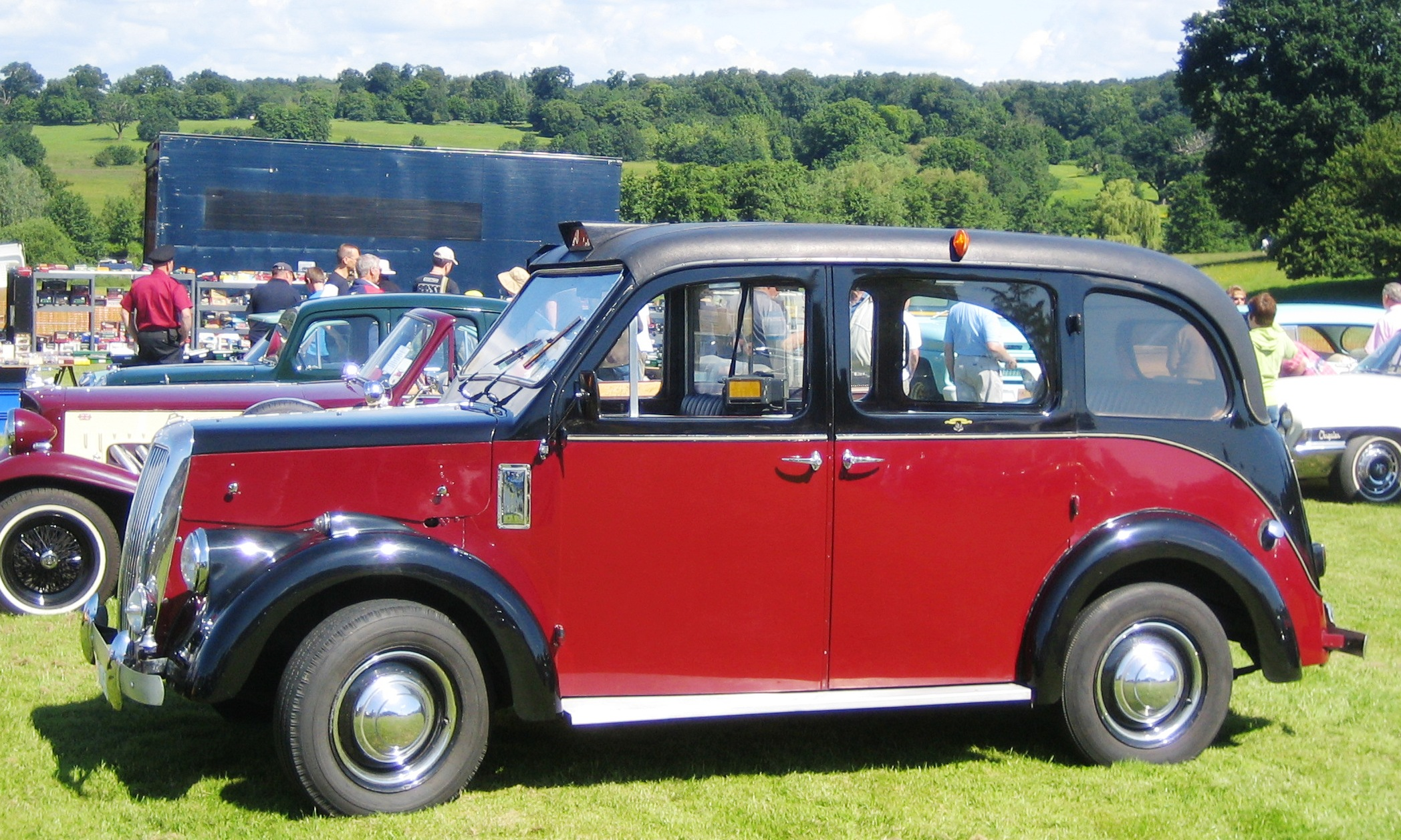 This Beardmore was an alternative taxi cab used in London in the 1960s and 1970s. Several hundred were produced, but the design was overshadowed by the Austin FX3 and later FX4 which overwhelmingly outsold the Beardmore.